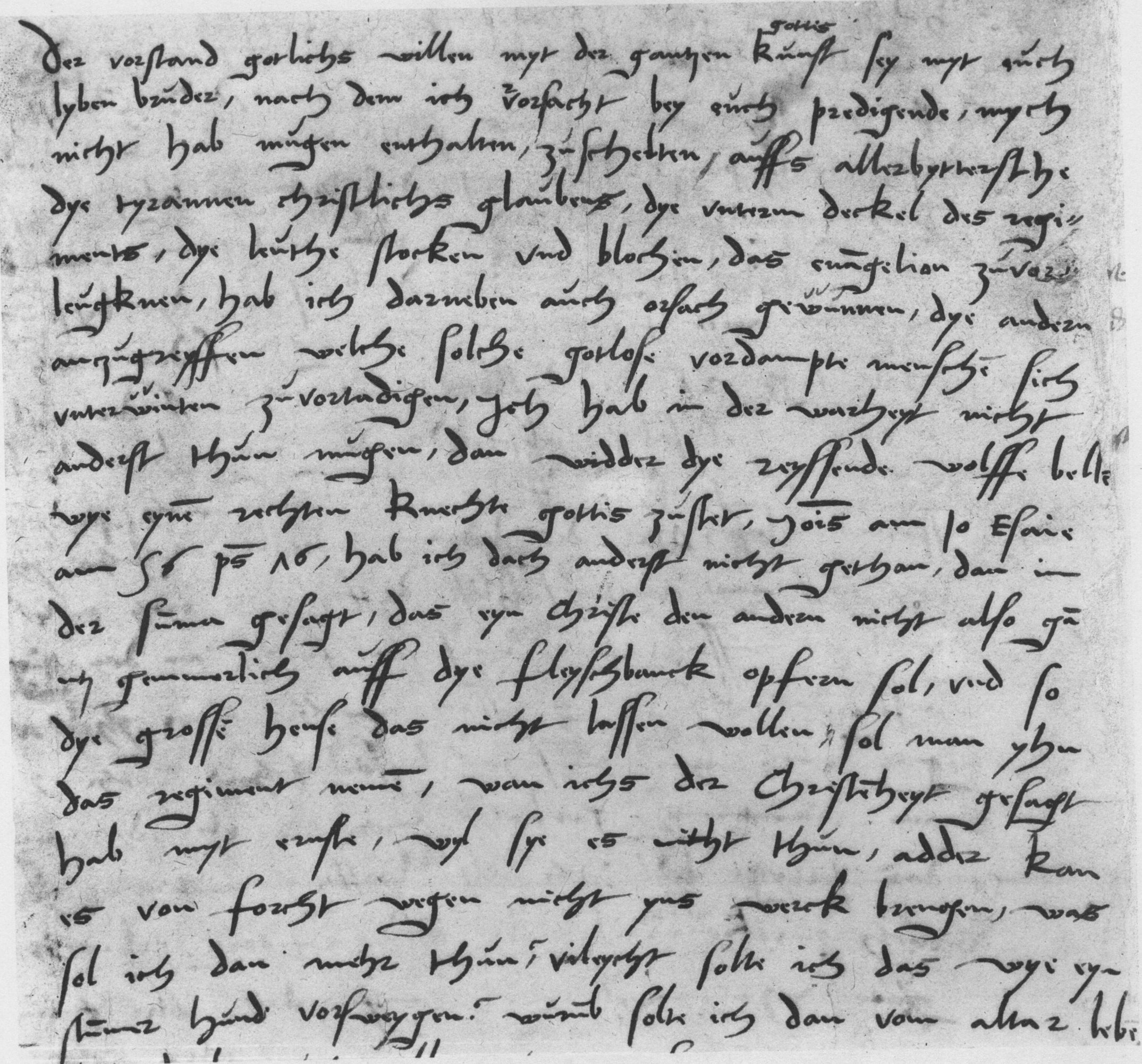 Part of an autograph letter of Thomas Münzer to the citizens of Allstedt.